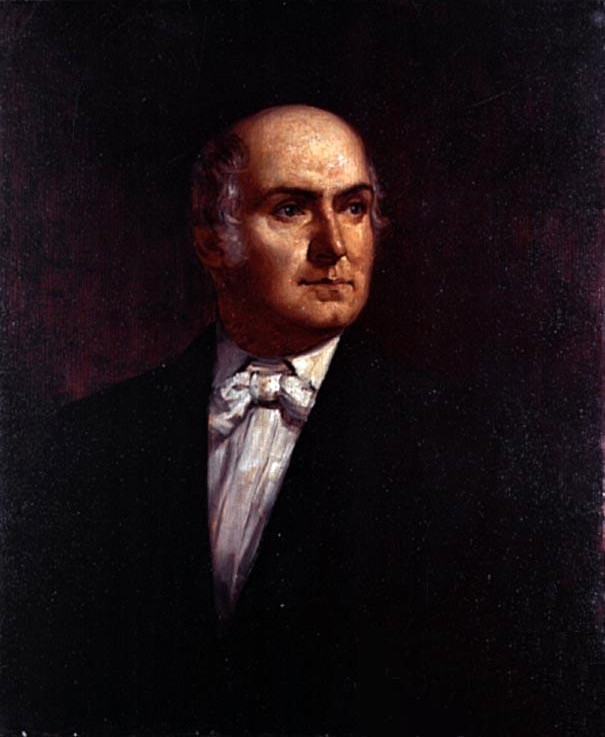 Abel P. Upshur, Secretary of the Navy, 11 October 1841 - 23 July 1843